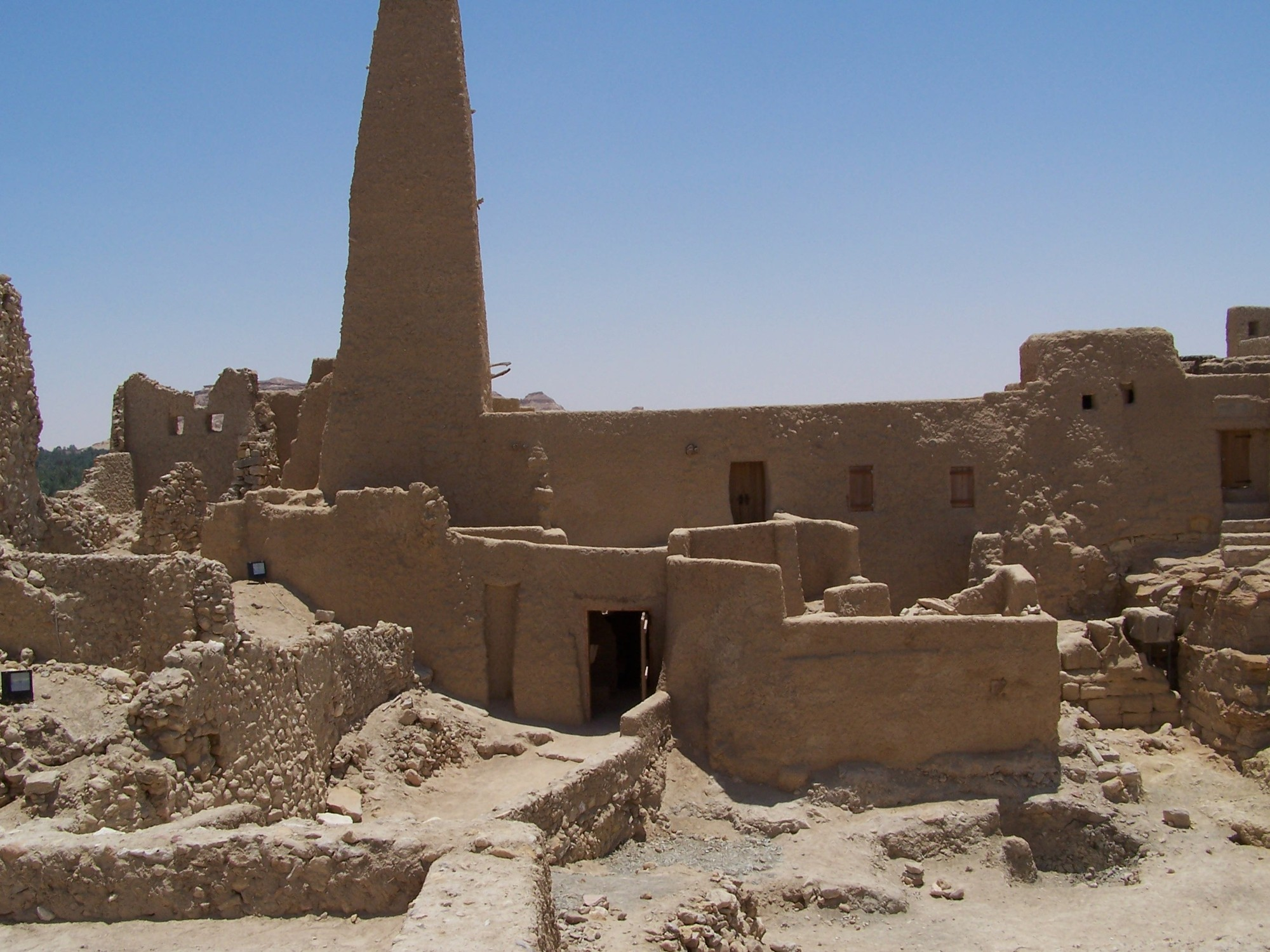 Oracle Temple. Oracle Temple near Siwa Egypt, Siwa.